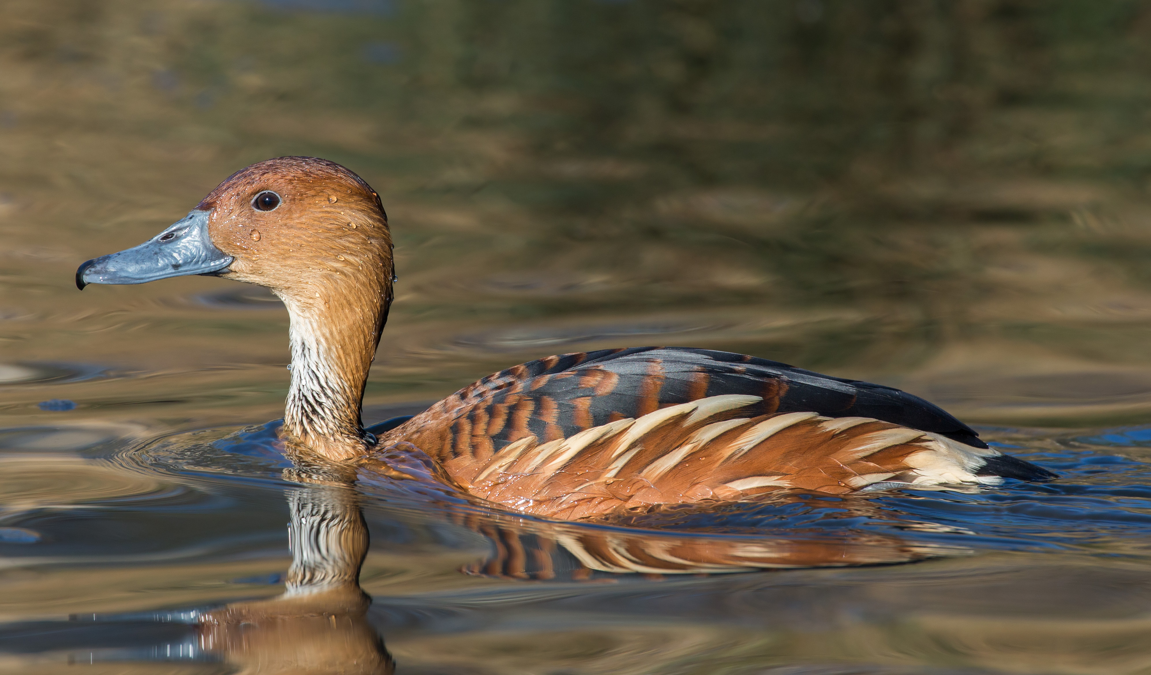 Dendrocygna bicolor, also known as the Fulvous Whistling Duck, at the London Wetland Centre in Barnes, London, UK.